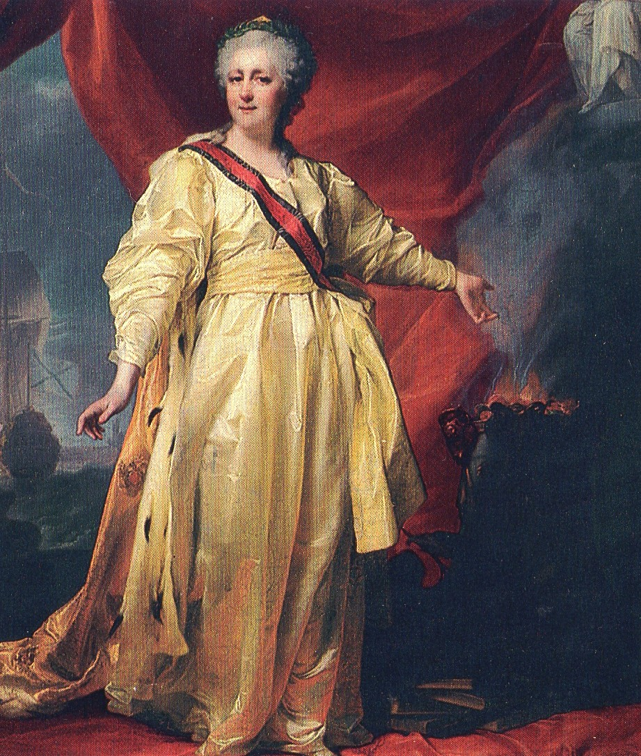 Portrait by D. G. Levitsky of the Empress Catherine II of Russia/Catherine the Great. 1770 (?), St. Petersburg, Russia. The portrait is in the collection of the Hermitage Museum, St. Petersburg, Russia. It was scanned from the Sept. 1998 issue of National Geographic Magazine (Vol.194/No.3). NB: No such painting in the Hermitage can be found now